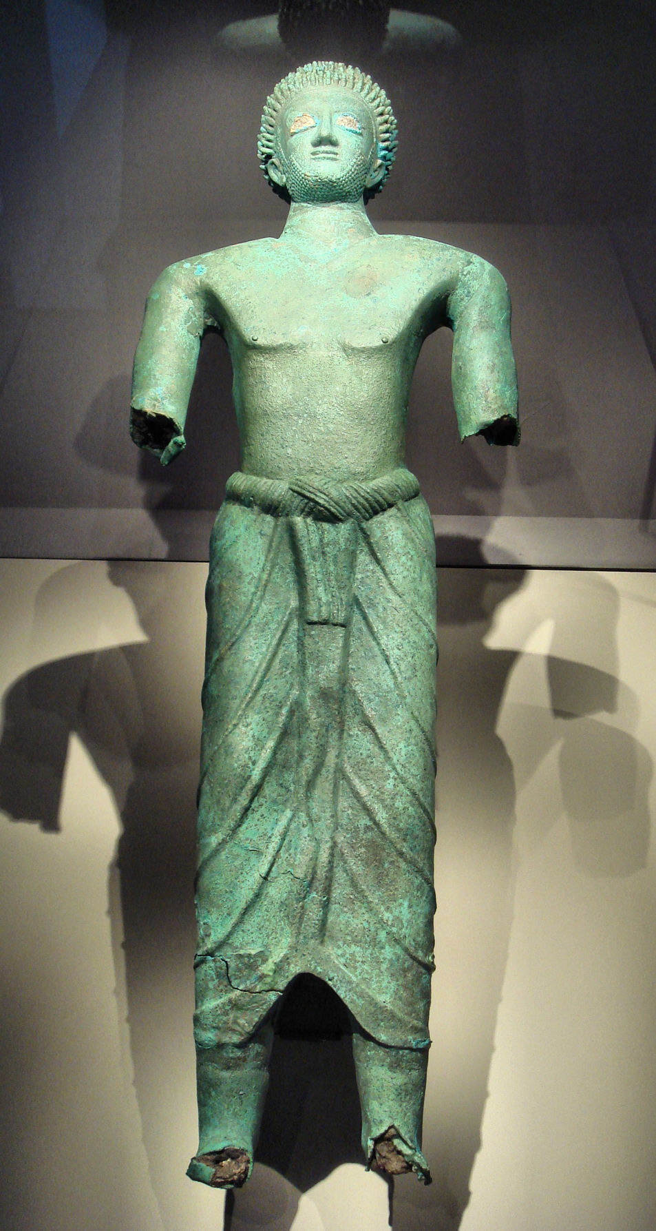 "Bronze man" — found in Al Bayda' (ancient Nashqum), Al Jawf Governorate, northwestern Yemen. Art of Ancient Yemen — Sheba culture (1200 BCE - 275 CE). Near Eastern Antiquities in the Louvre - Room 19.